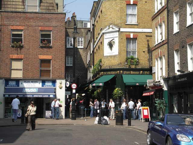 Shepherd Market, Mayfair This historic market is now home to numerous restaurants and bars. Ahead is the 19th cenury pub, "Ye Grapes".